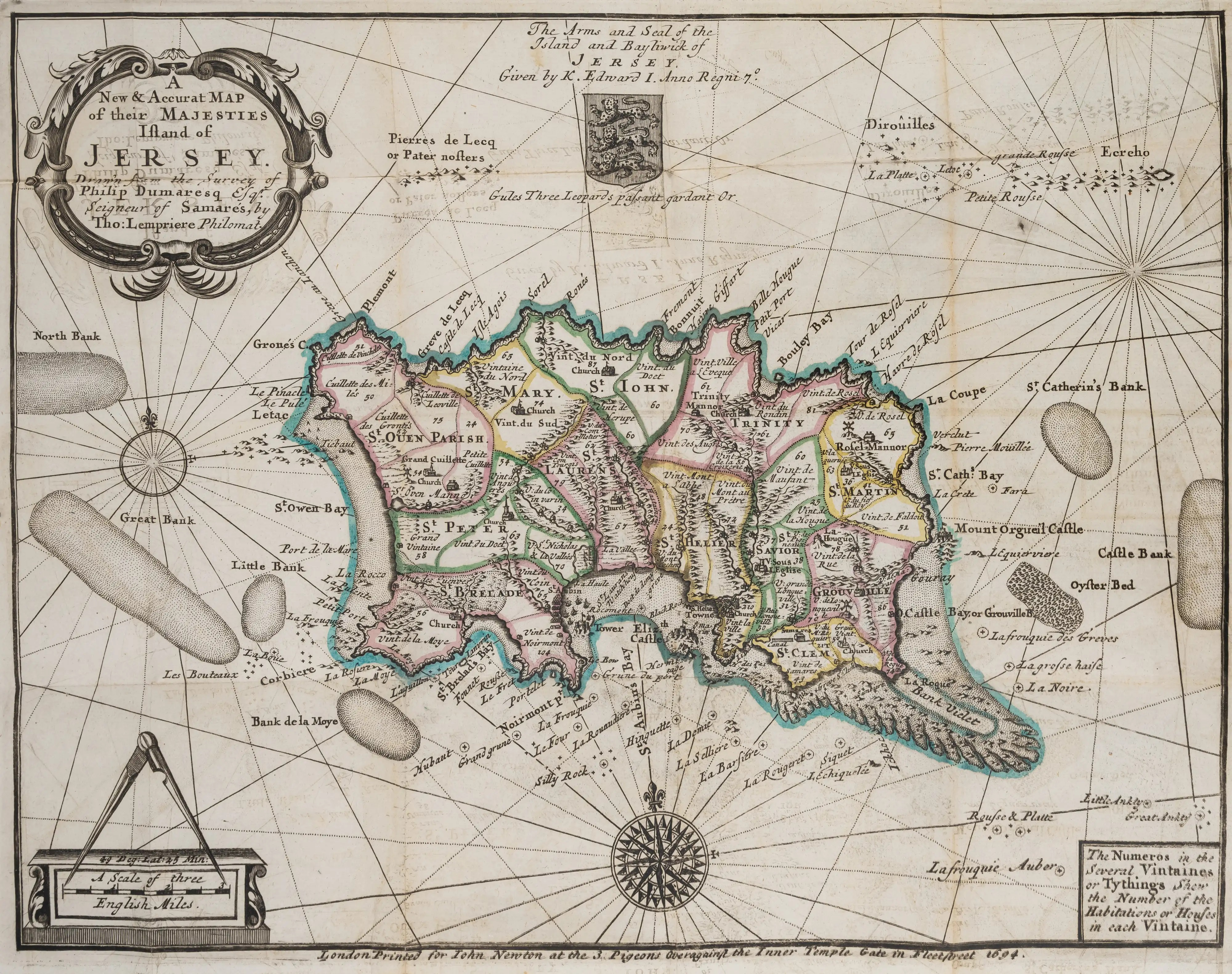 A New & Accurat Map of their Majesties Island of Jersey. Drawn from the Survey of Philip Dumaresq Esqr. Seigneur of Samarés, by Tho: Lempriere Philomat. London Printed for Iohn Newton at the 3 ...eons Overagainst the Inner Temple Gate in Fleetstreet 1694